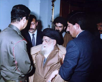 Ayatollah al-Khoei forced to visiting Saddam Hossein after fault riot of al-Dawa political party in 1974.